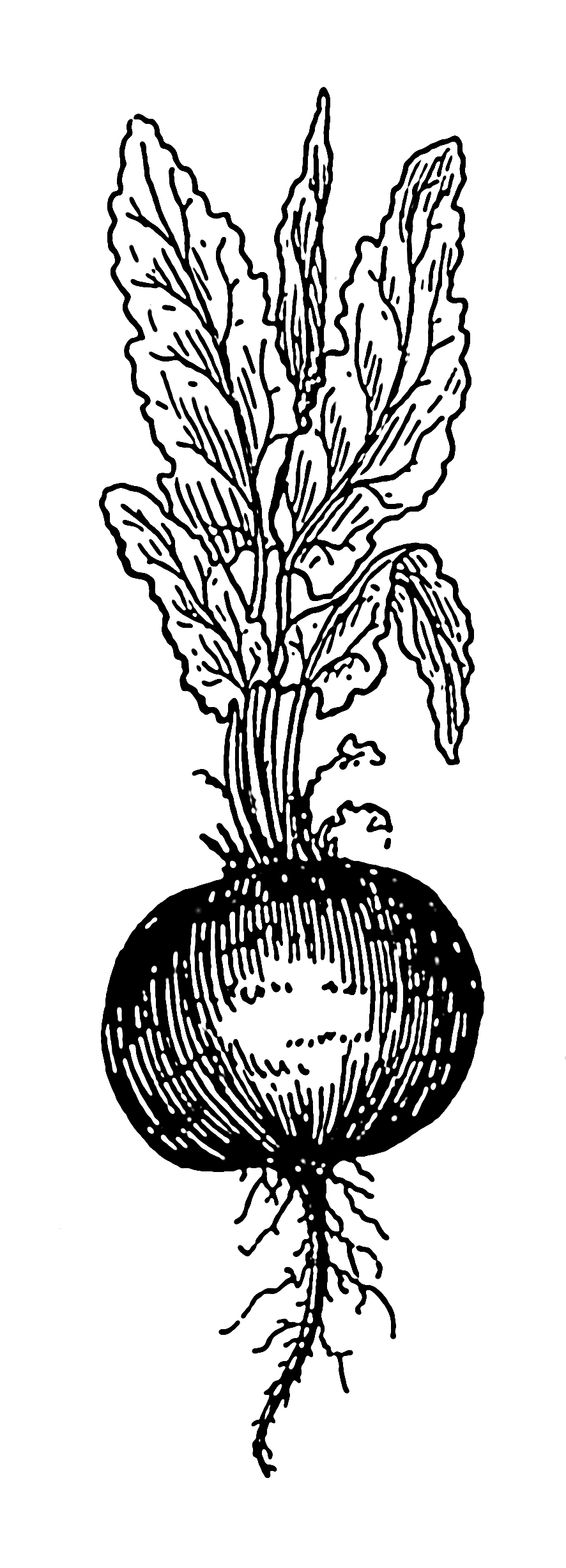 Line art drawing of a beet.